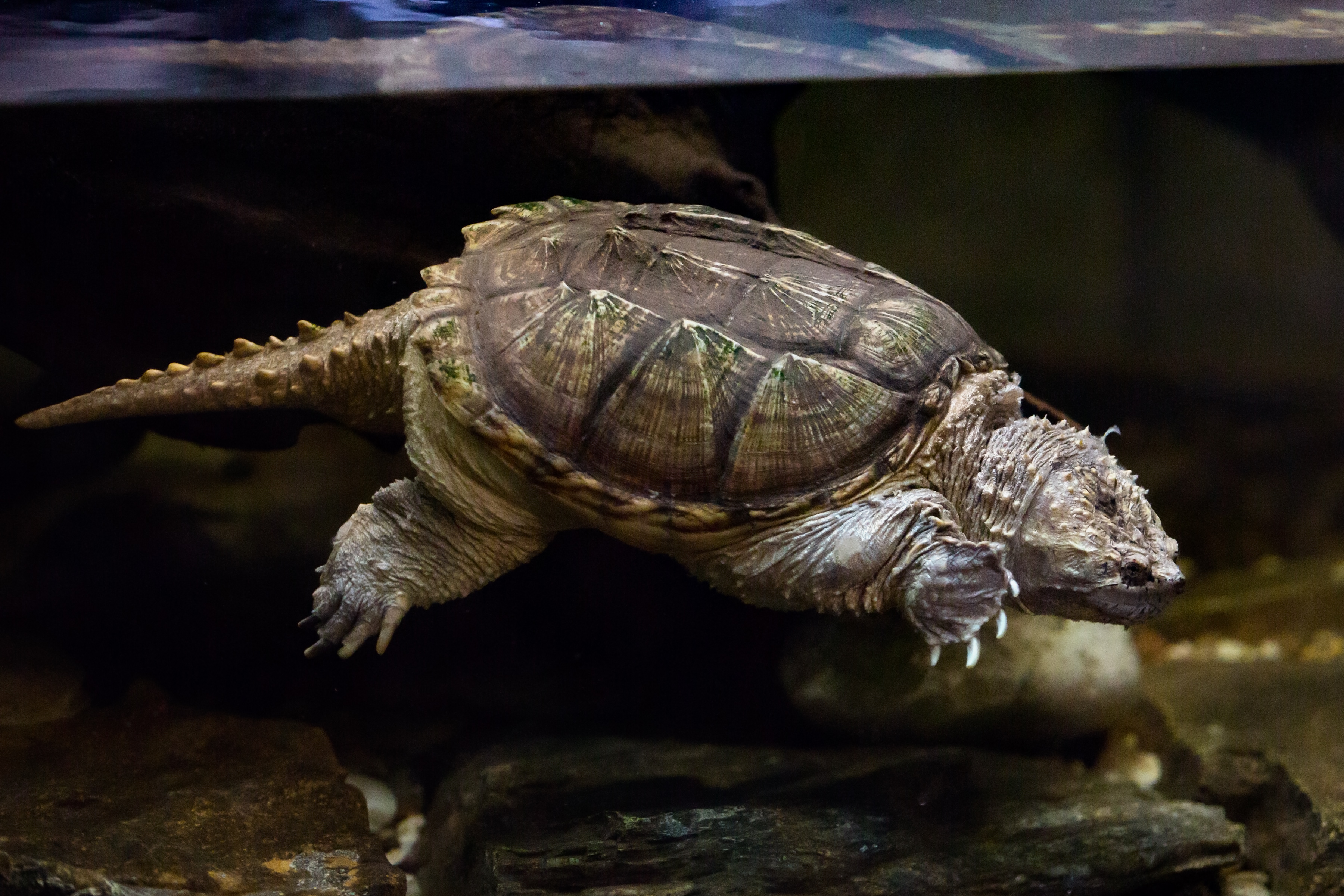 Common snapping turtle (Chelydra serpentina) at Blumengärten Hirschstetten in Vienna, Austria.